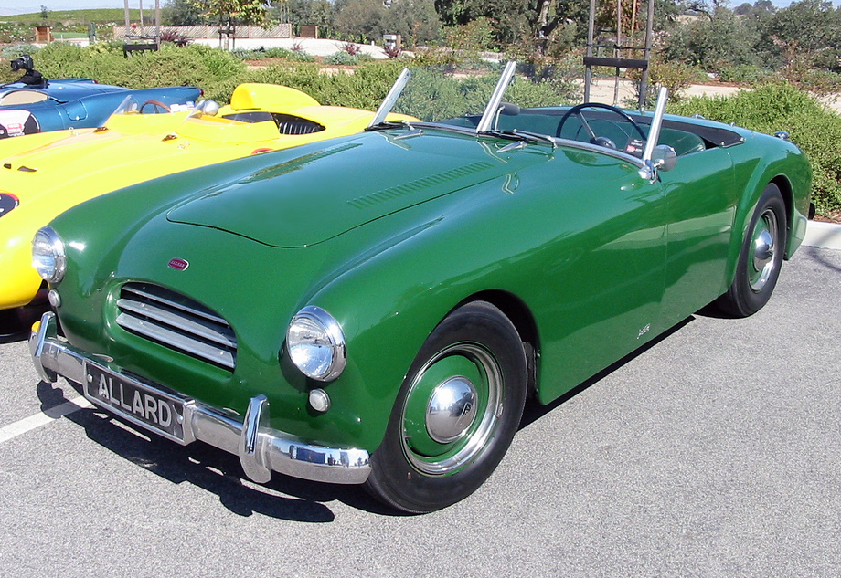 1953 Allard K3 at the 2011 Mille Miglia Tribute in California. 63 K3s were built and 46 of them remain. Chassis number K3/3192, 331 ci Cadillac OHV V8 with ~210hp and drums all around. Three-speed manual. The K3 has an independent front suspension and a De Dion rear. At this time it belonged a Dr. Allard (not a relative) who owned the car for 33 years.